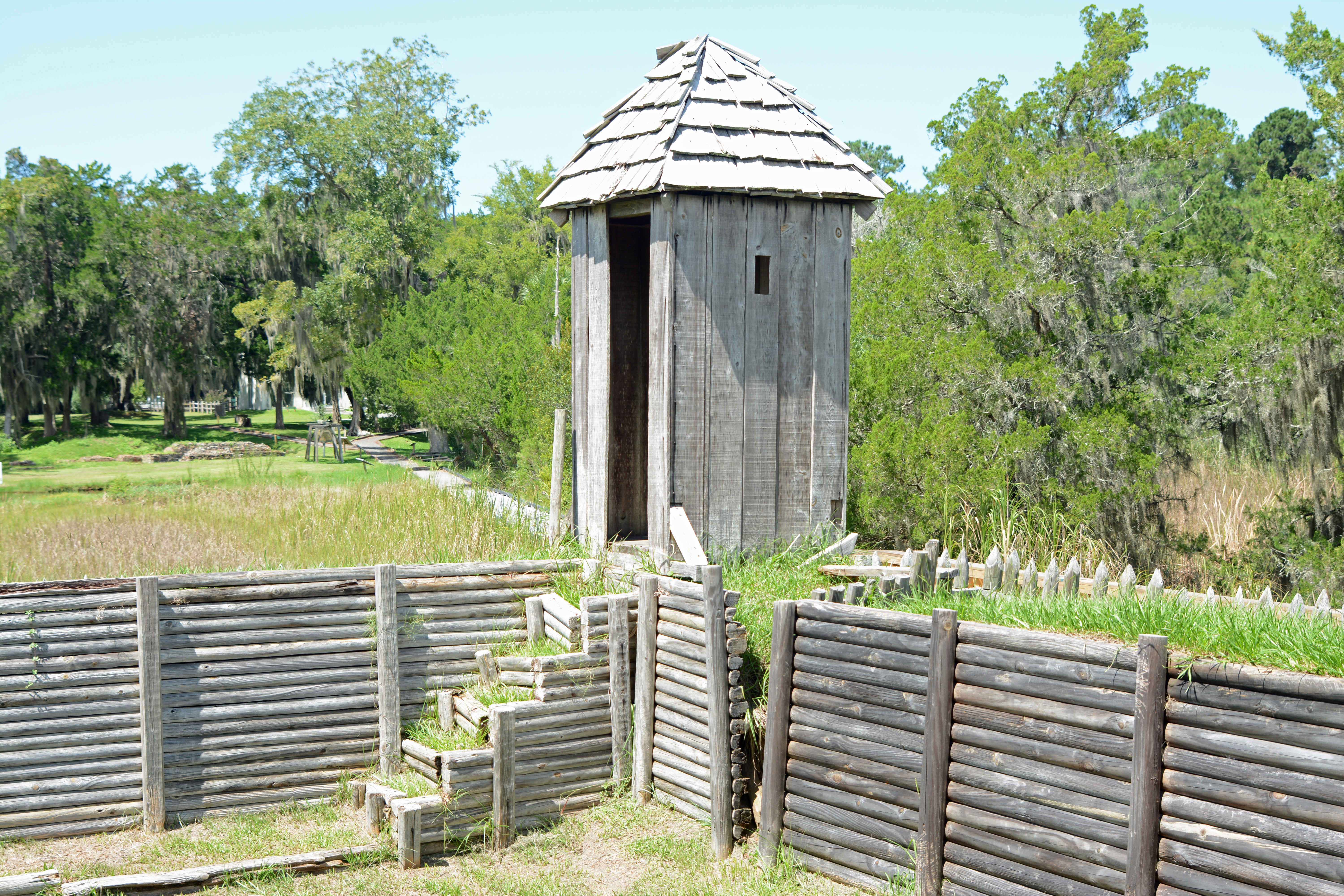 Sentry post at Fort King George, in McIntosh County, Georgia, US